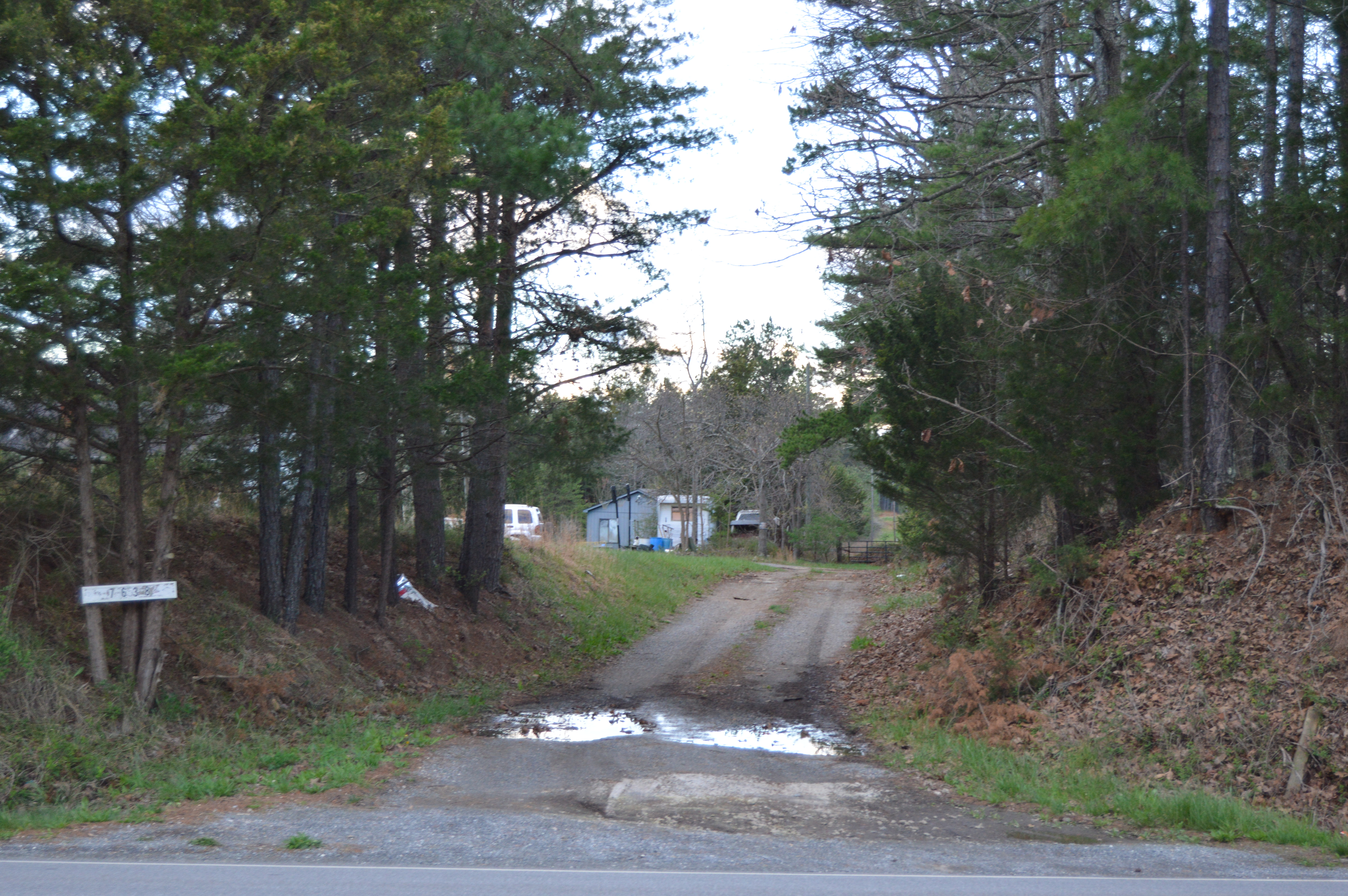 One of two entrances to the Oak Grove estate, located off Gladys Road east of Altavista in Campbell County, Virginia, United States. The estate is listed on the National Register of Historic Places.